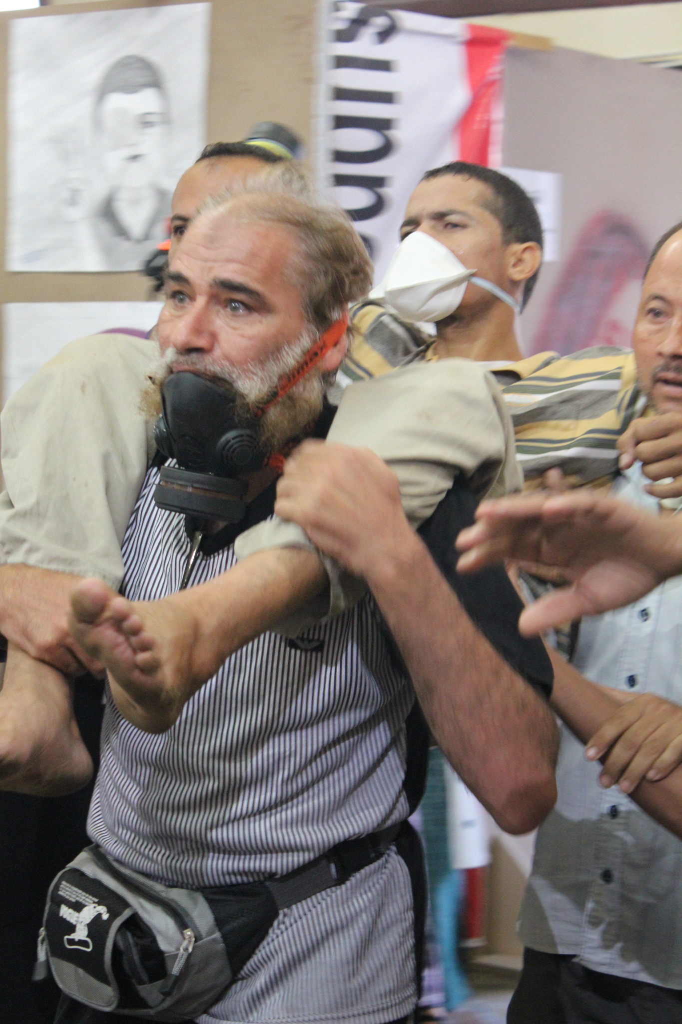 Rabaa field hospital; published description in What really happened on the day more than 900 people died in Egypt - The story of a massacre, GlobalPost, 26 February 2014, by Louisa Loveluck, archived from the original on 18 July 2014: "Image[s] taken by Asmaa Shehata, mentioned above, show men rushing injured demonstrators to medical care."